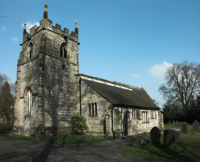 St Wilfred's parish church, Egginton, Derbyshire, seen from the southwest